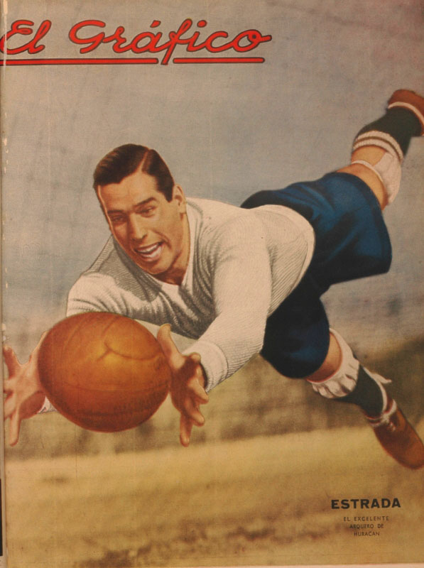 Goalkeeper Juan Estrada pictured in 1935 when playing for C.A. Huracán.